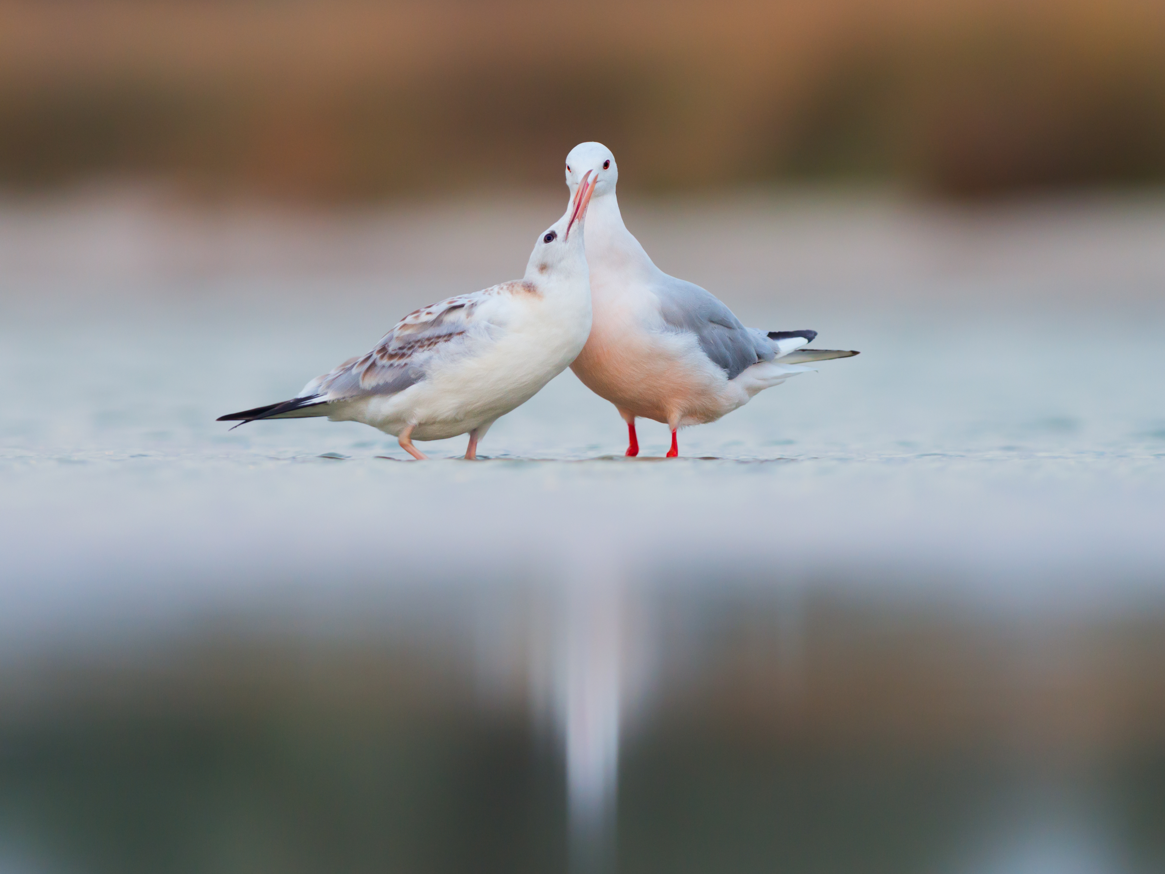 A young slender-billed gull asks one of its parents for food. Kinburn Spit, Mykolaiv Oblast.